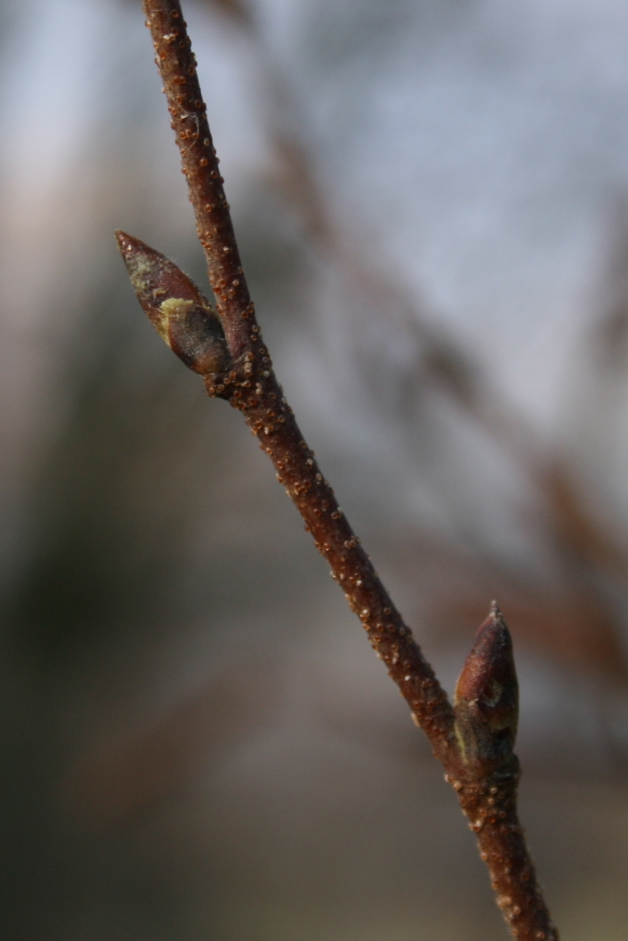 Betula albosinensis var. septentrionalis: Buds